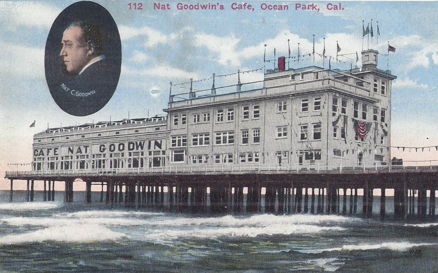 Postcard photo of Cafe Nat Goodwin in Santa Monica California. Goodwin, a comedian and vaudeville artist, opened this cafe and cabaret on the private Bristol Pier in Santa Monica around 1913. He sold the business in 1916 and it was renamed the Sunset Inn.